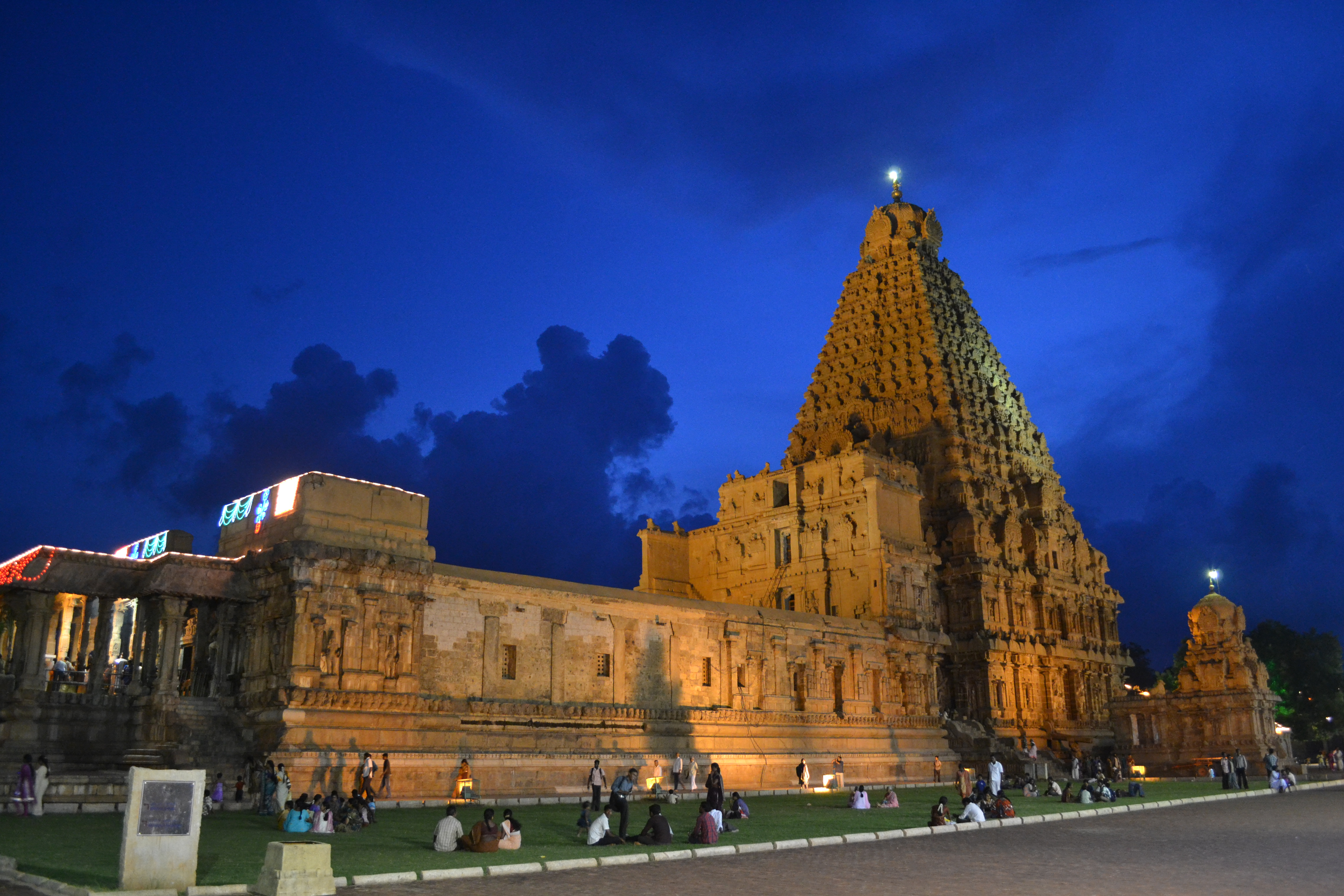 that day the great king rajarajacholan brithday of sadhayavizha, Thanjavur,Tamil Nadu.